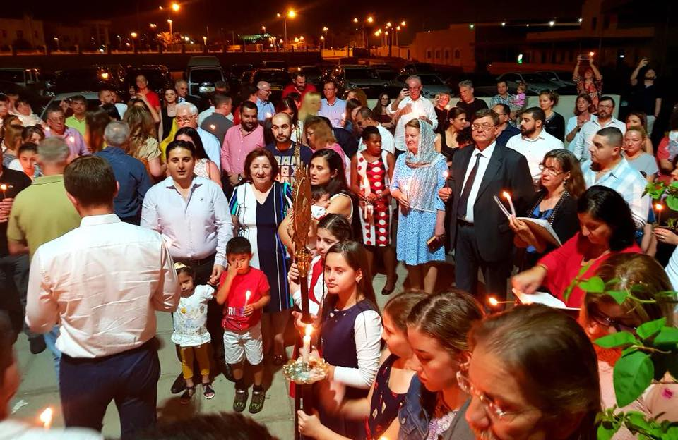 Easter celebration in Oman